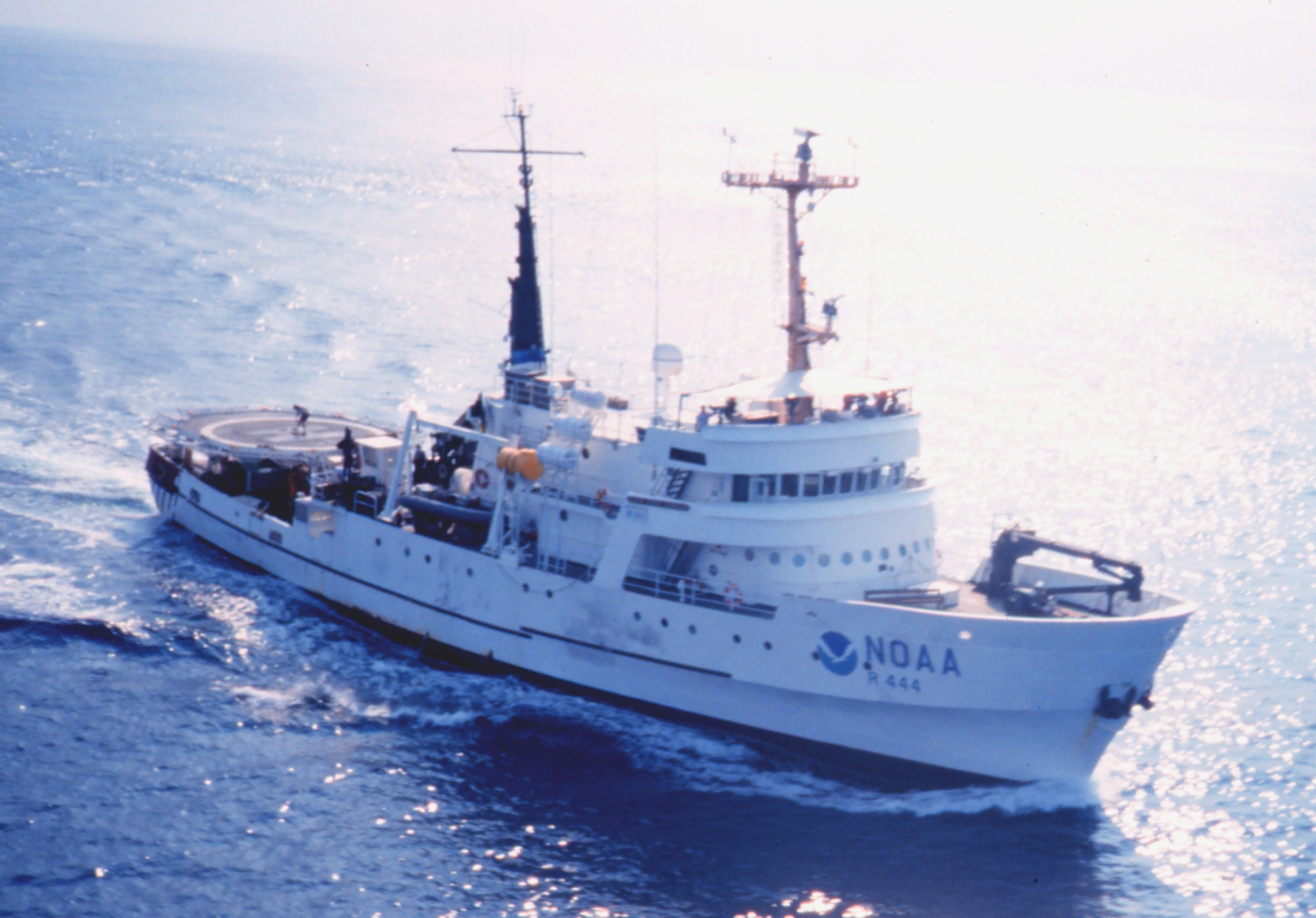 The National Oceanic and Atmospheric Administration (NOAA) fisheries research ship NOAAS David Starr Jordan (R 444) photographed from NOAA's MD500 helicopter during marine mammal studies in the tropical eastern Pacific Ocean.